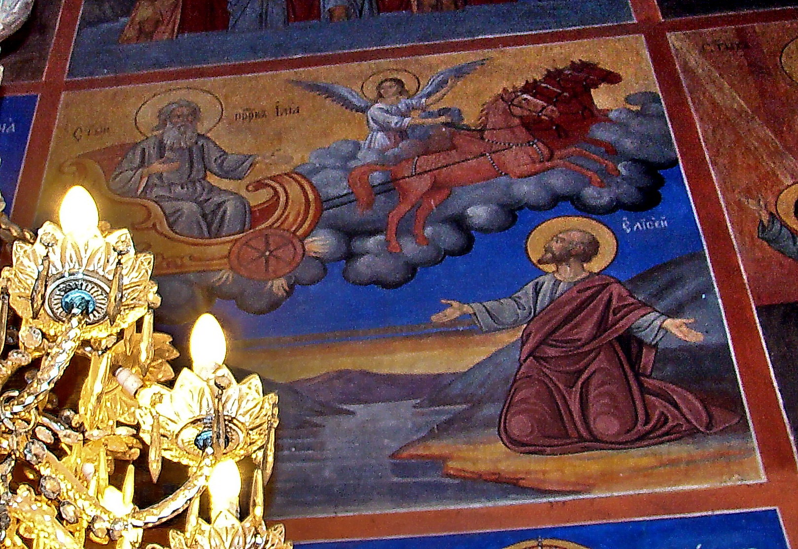 A Fresco from Osogovo Monastery (Sarandapori), Republic of Macedonia